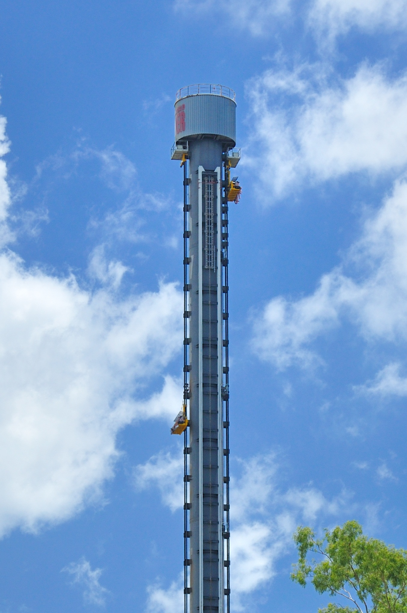 The Giant Drop and Tower of Terror II form the Dreamworld Tower. One of the Giant Drop gondalas can be seen plunging to the ground with the other gondala waiting at the top of the tower.